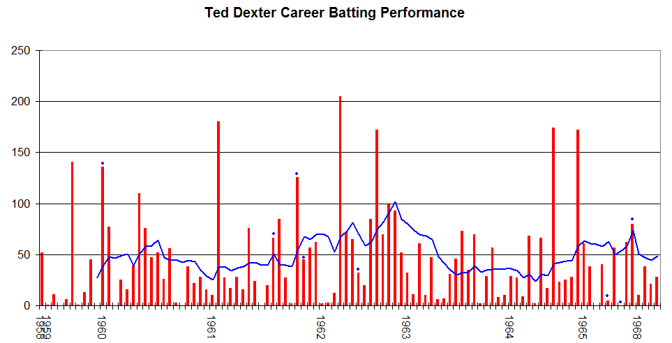 This graph details the Test Match performance of Ted Dexter. It was created by Raven4x4x. The red bars indicate the player's test match innings, while the blue line shows the average of the ten most recent innings at that point. Note that this average cannot be calculated for the first nine innings. The blue dots indicate innings in which Dexter finished not-out. This graph was generated with Microsoft Excel 2002, using data from Cricinfo and .au.